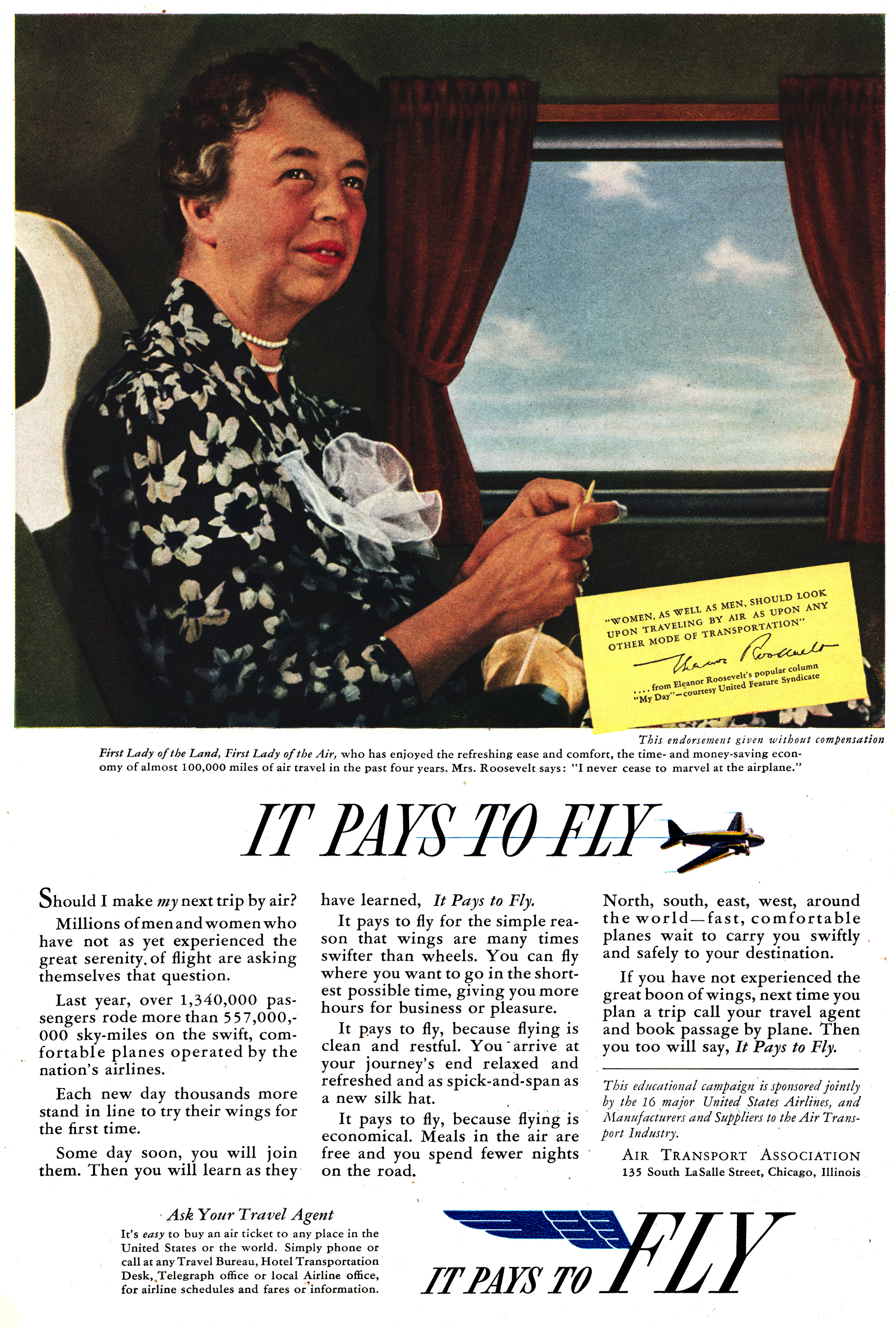 1939 Air Transport Association advertisement featuring then First Lady Eleanor Roosevelt promoting commercial air transportation in the United States.